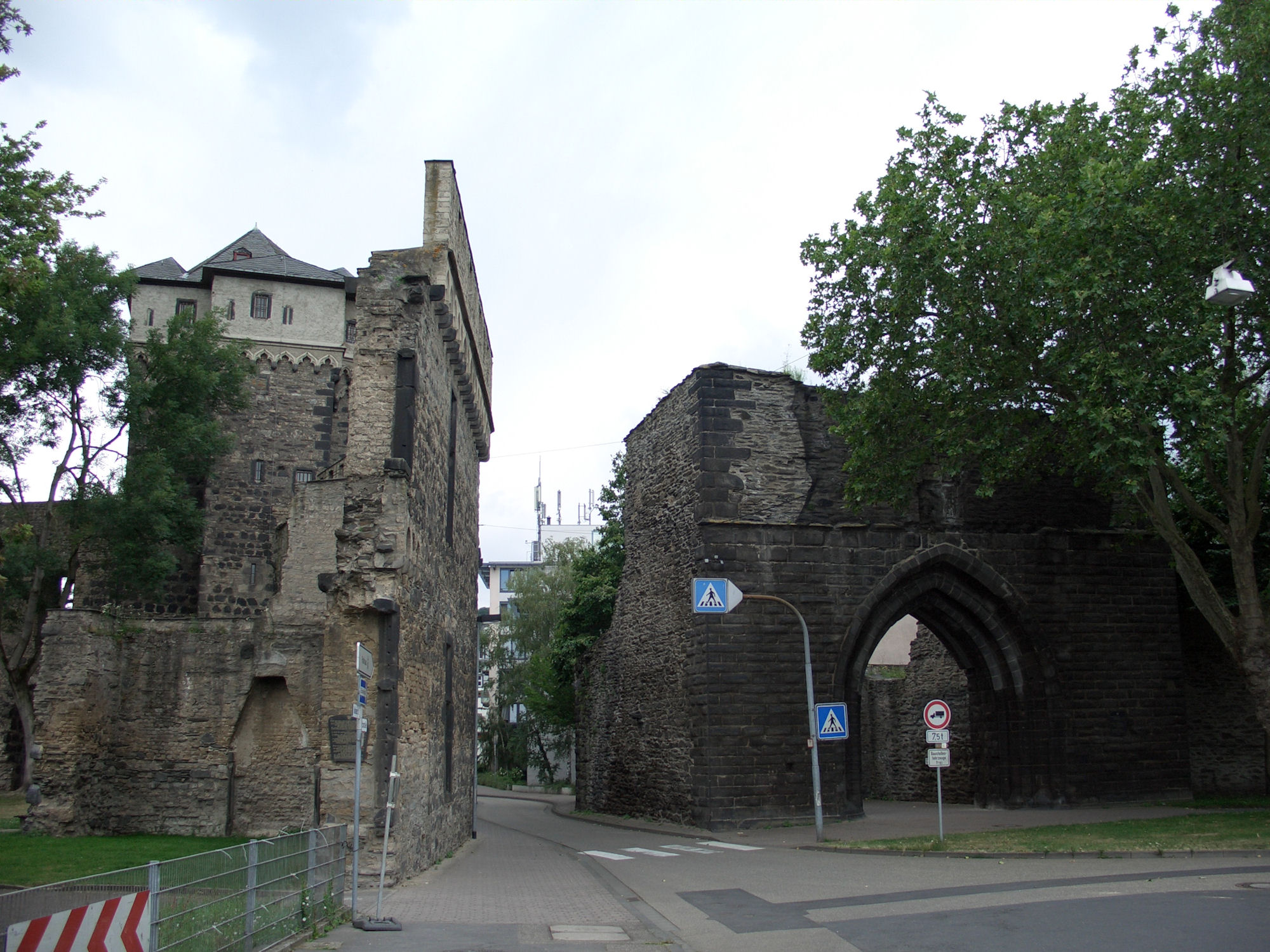 Andernach castle